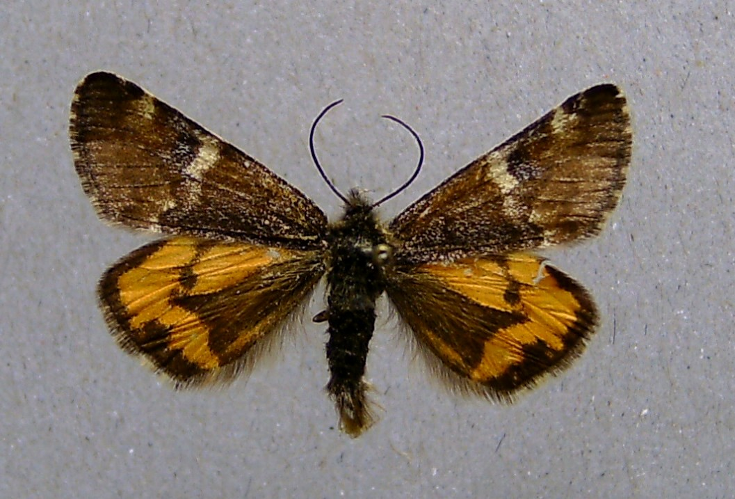 Archiearis parthenias